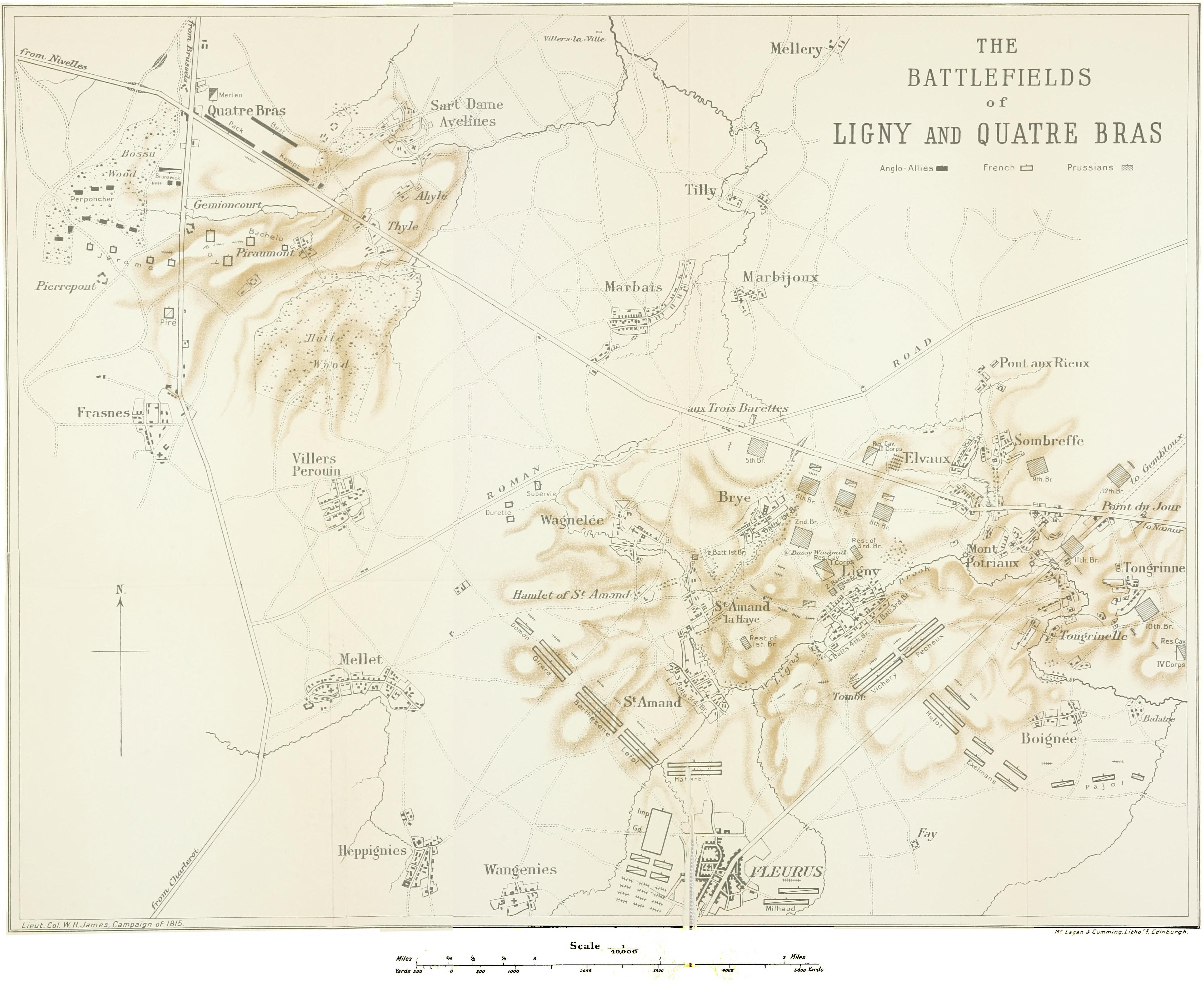 Plan of the Battlefelds of Ligny and Quatre Bras, facing page 150